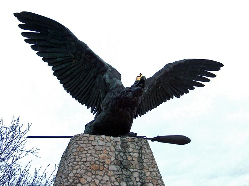 Bird of Turul, near the City of Tatabánya in Hungary